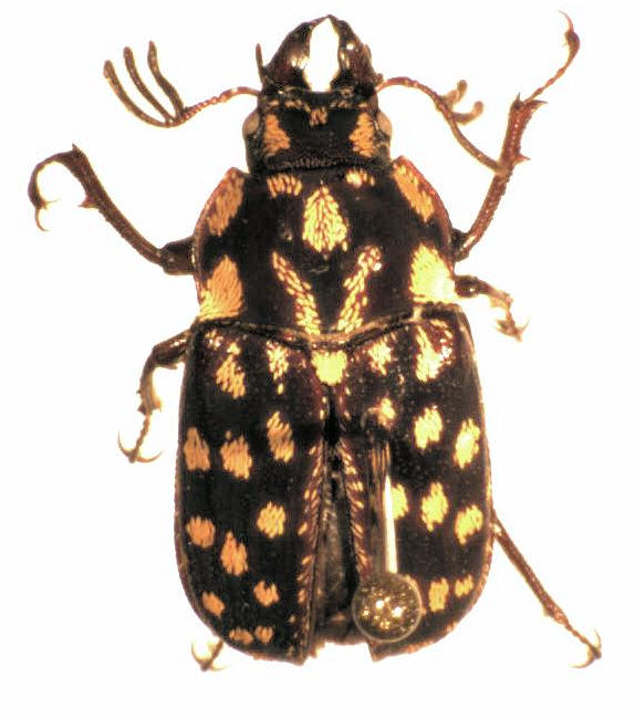 adult male Mitophyllus foveolatus